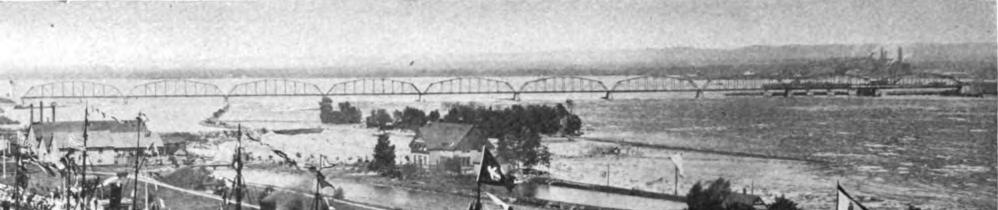 Cropped to show the International Railway Bridge in Sault Ste Marie